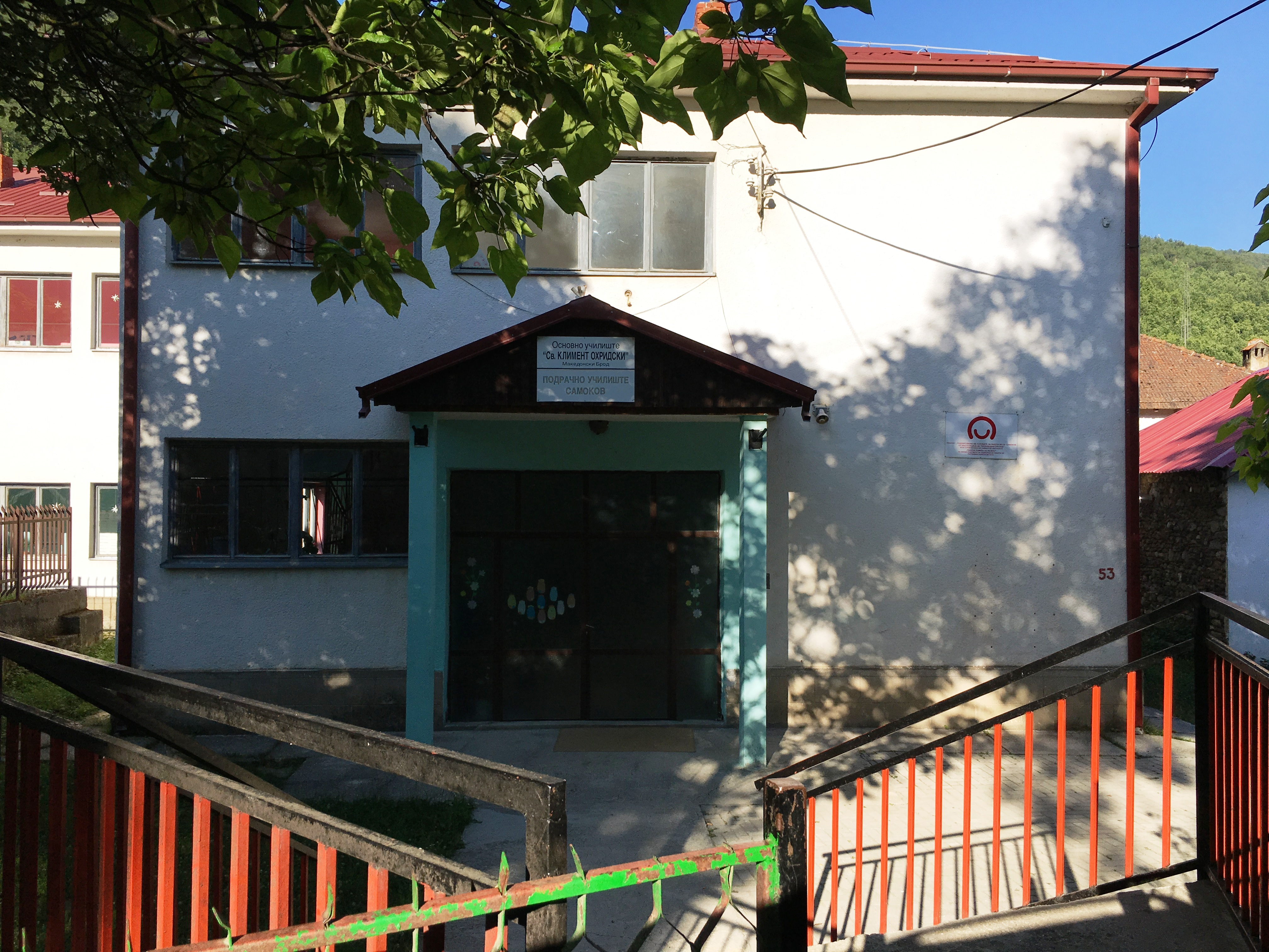 St. Clement of Ohrid Primary School in the village of Samokov